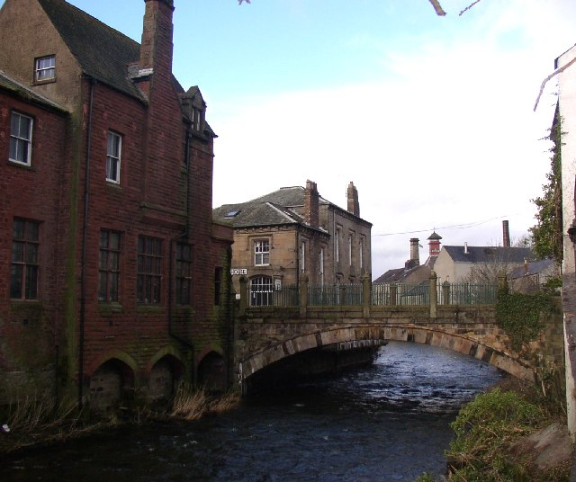 Cocker Bridge, Cockermouth. This is the bridge that carries Main Street over the River Cocker. The building on the left was a bank in 1900, and the brewery, with its red turret, can be seen in the distance.